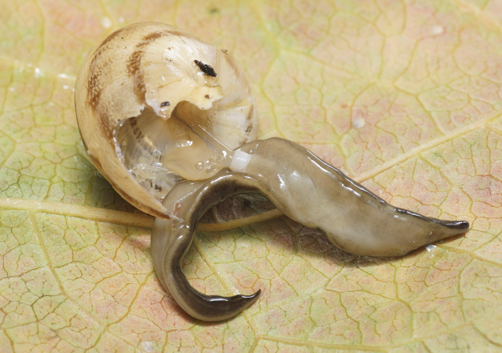 Platydemus manokwari de Beauchamp, 1963, experimental predation on indigenous snail. The flatworm is preying on a snail: it has been disturbed, thus showing the white cylindrical pharynx on the ventral side, protruding and ingesting soft tissues of the snail. The prey is the helicid Eobania vermiculata, a common snail of the Mediterranean region.